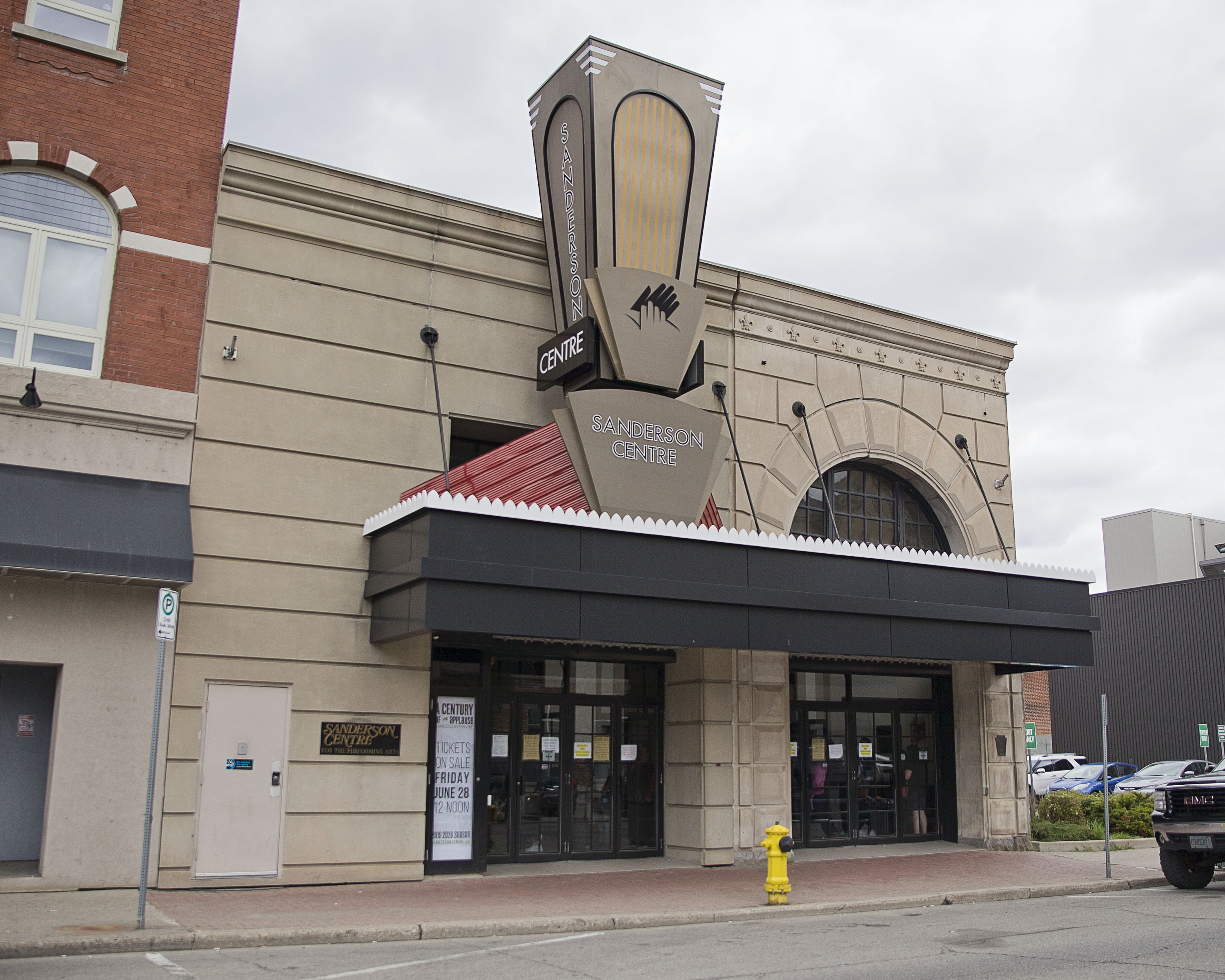 Facade of the Sanderson Centre